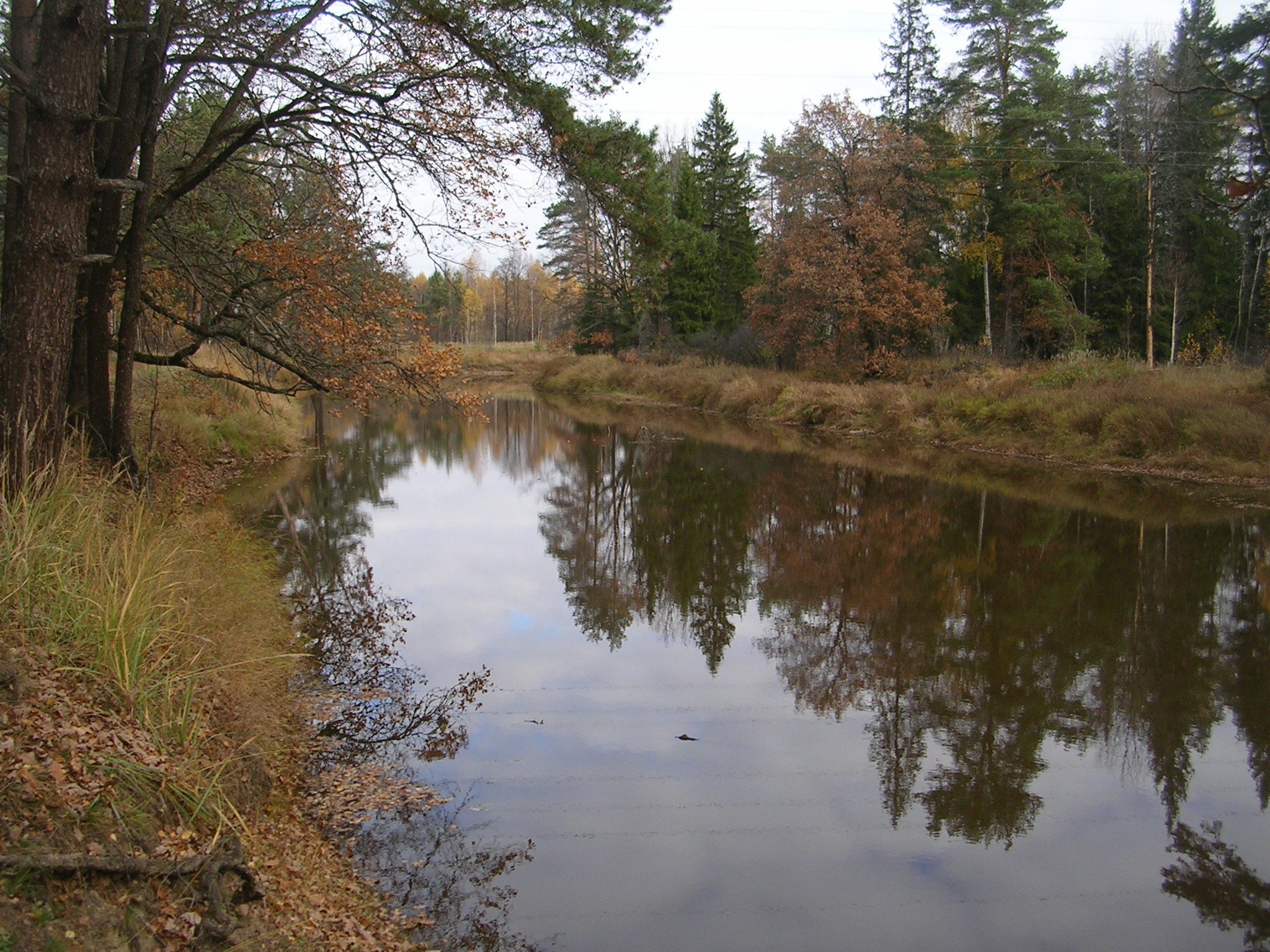 Buzha river near Izbishi